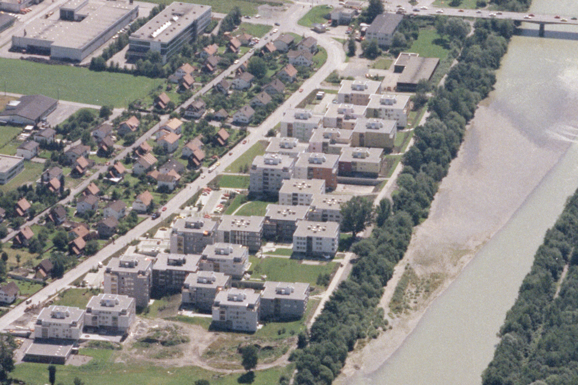 Siedlung an der Ach / Helmut Klapper